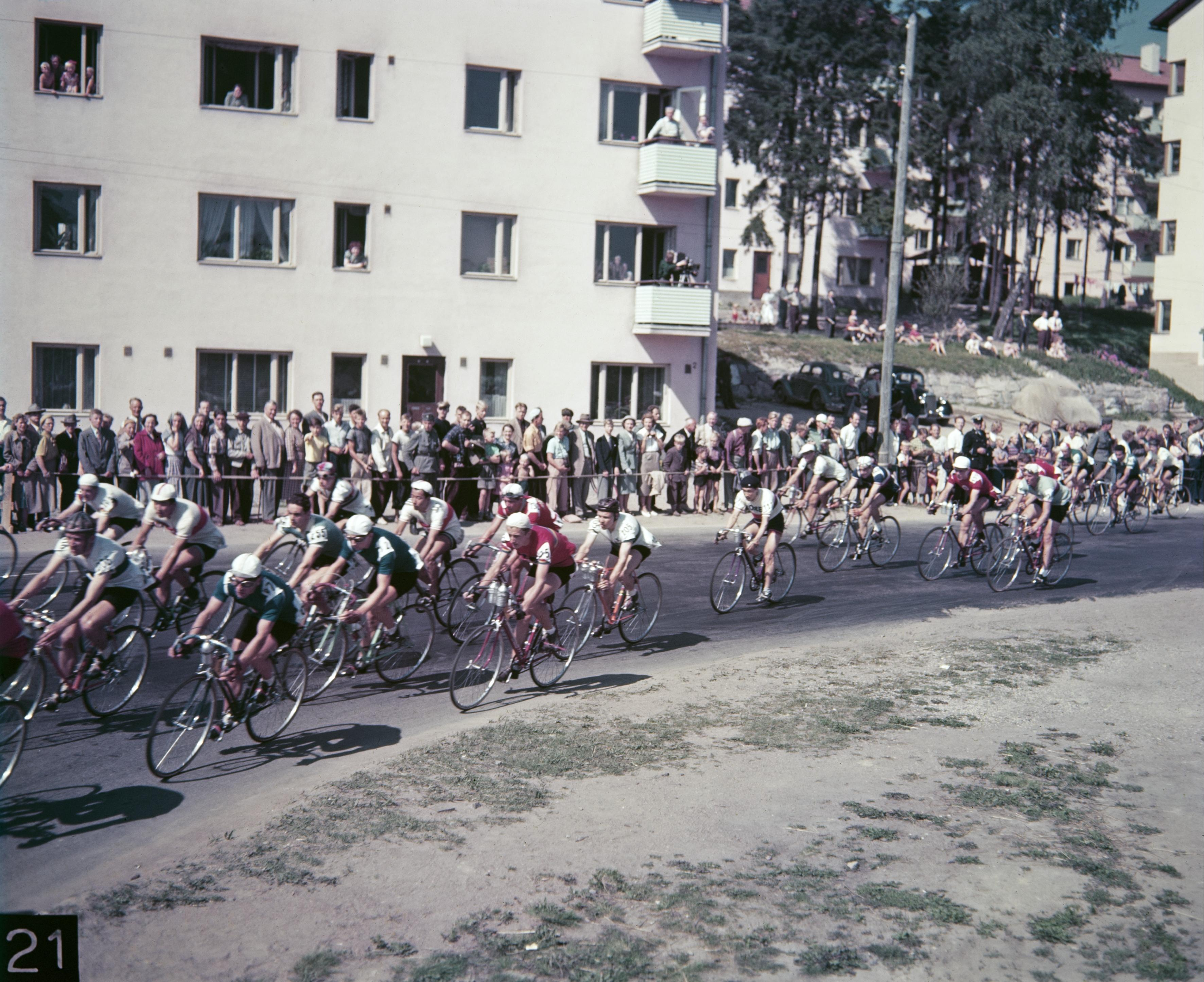 Helsinki Olympic Games, 1952. Road cycling. Racers turn from Käpyläntie to Koskelantie.